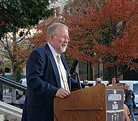 Phil Anderson, Libertarian, announcing his bid for Governor of Wisconsin.